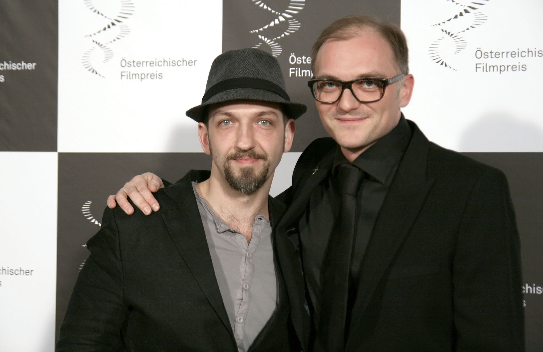 Michael Fuith and Markus Schleinzer, Austrian Film Awards 2012 (Vienna).